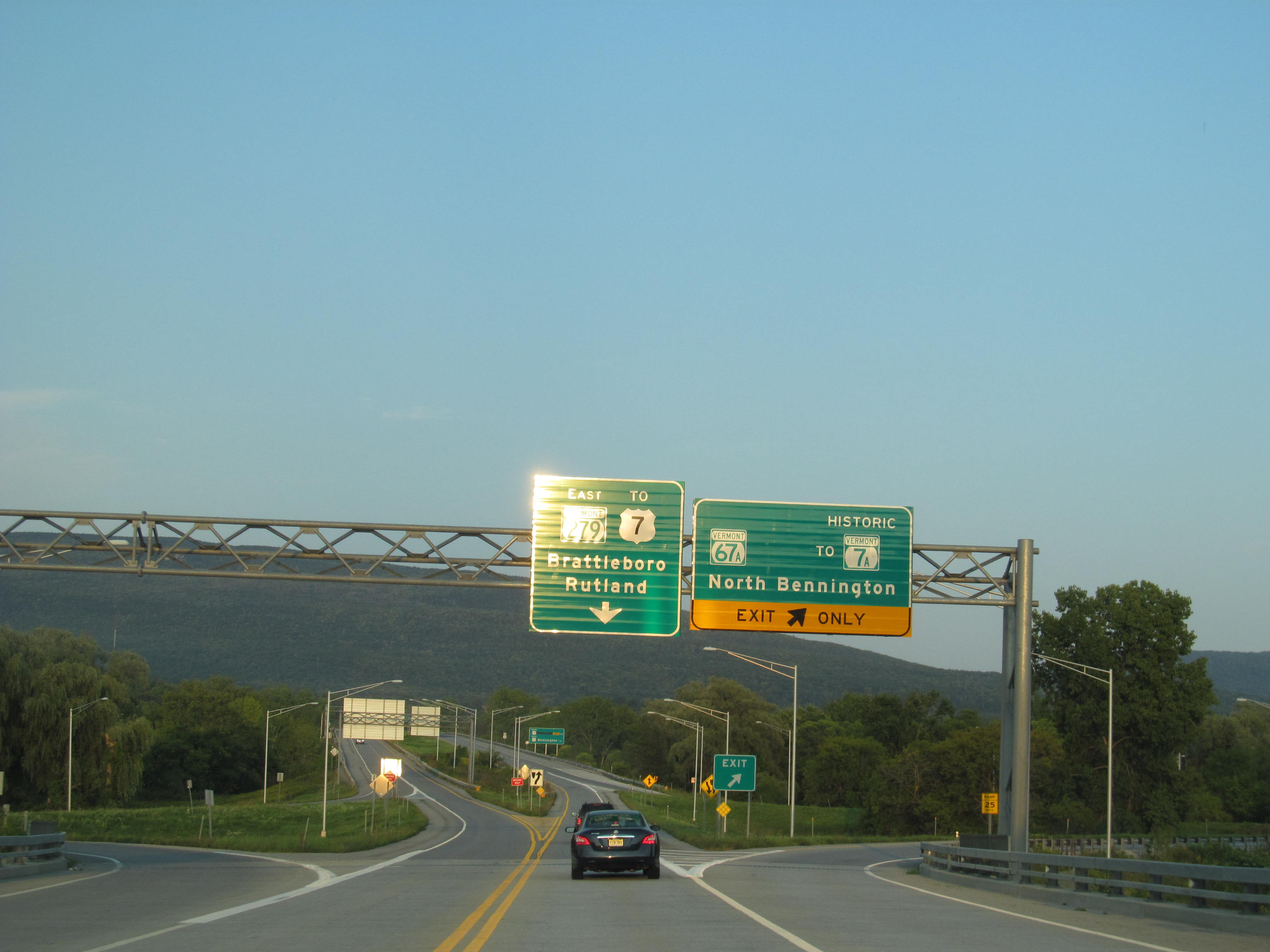 Vermont Route 279 eastbound at Vermont Route 67A in Bennington.